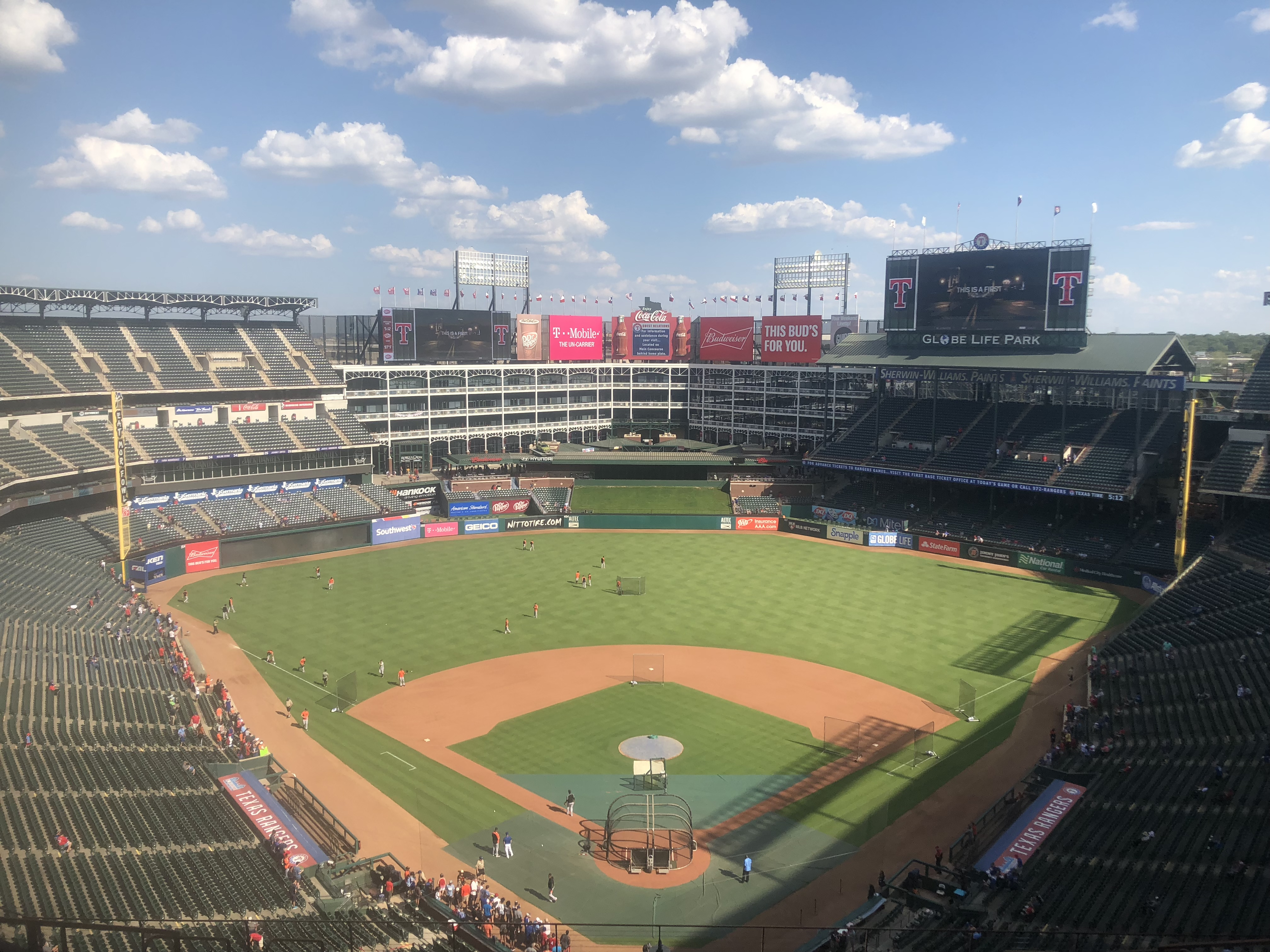 Batting Pratice before Rangers vs Orioles, 2018.8.4